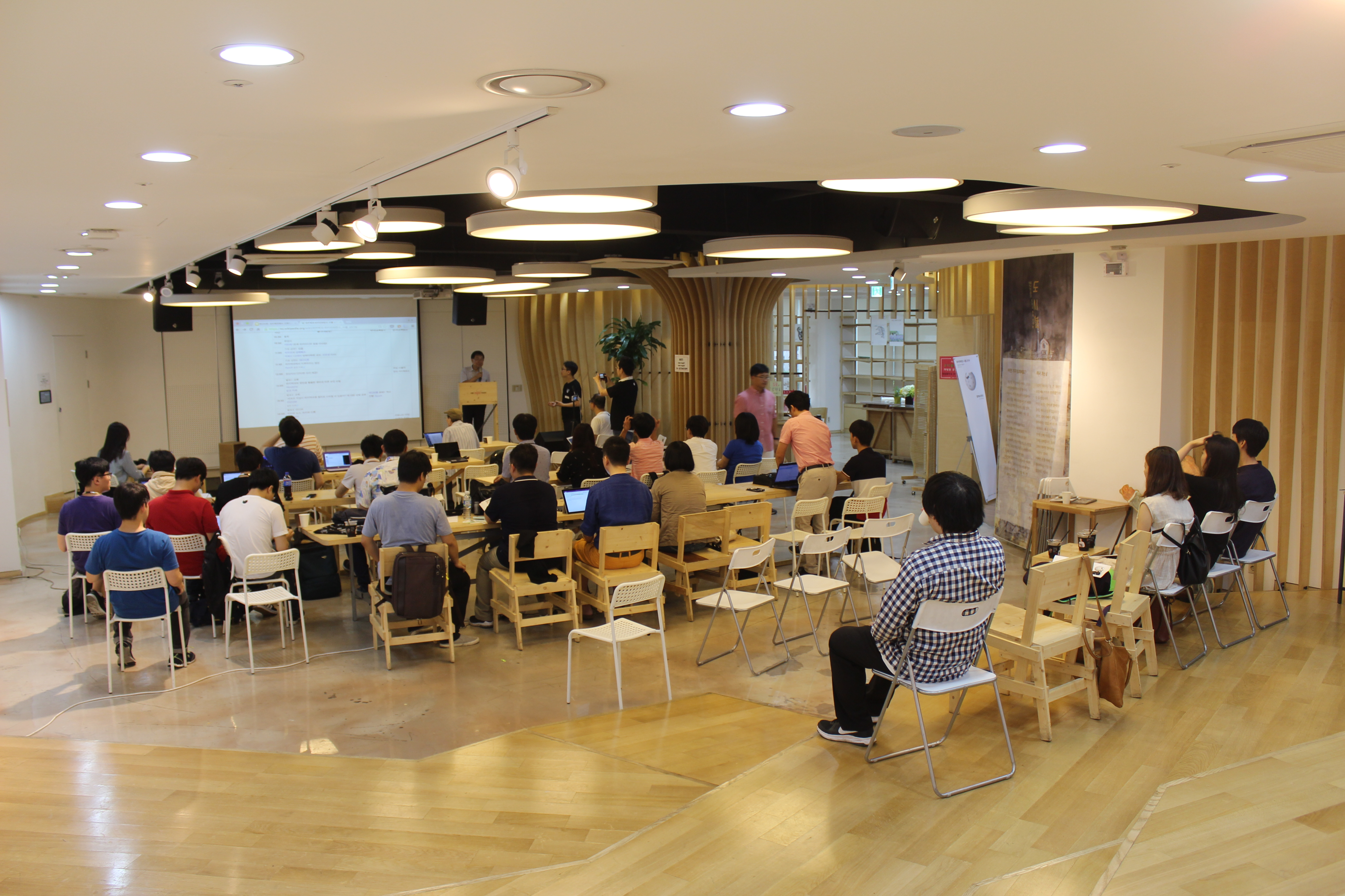 A photo of Wikiconference Seoul 2016, which held on Seoul City NPO Support Center, At July 23, 2016.